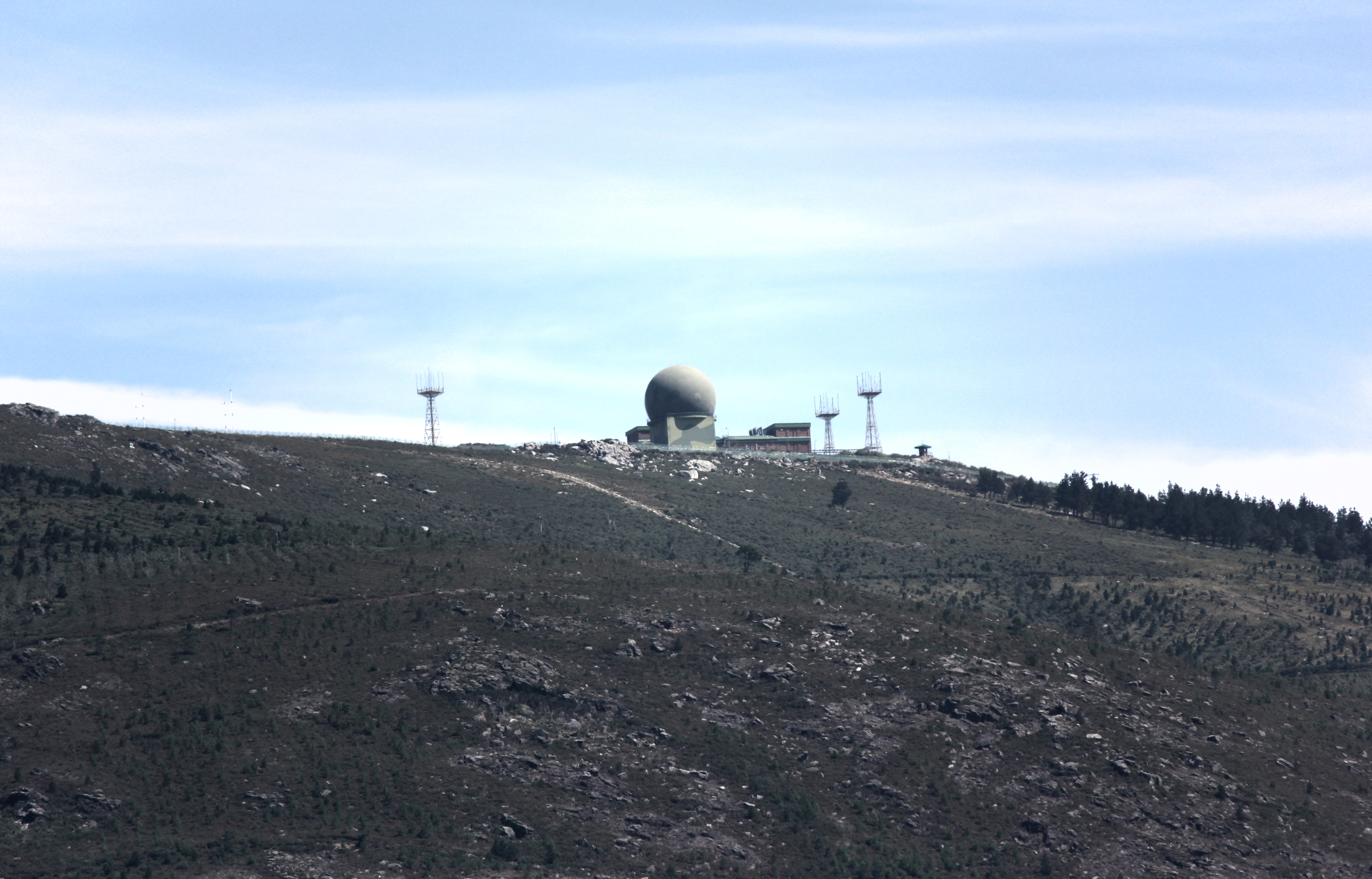 EVA-10 (Escuadrón de Vigilancia Aérea número 10, Air Surveillance Squadron number 10) on Mount Iroite, in the mountains of Barbanza, Galicia, Spain.